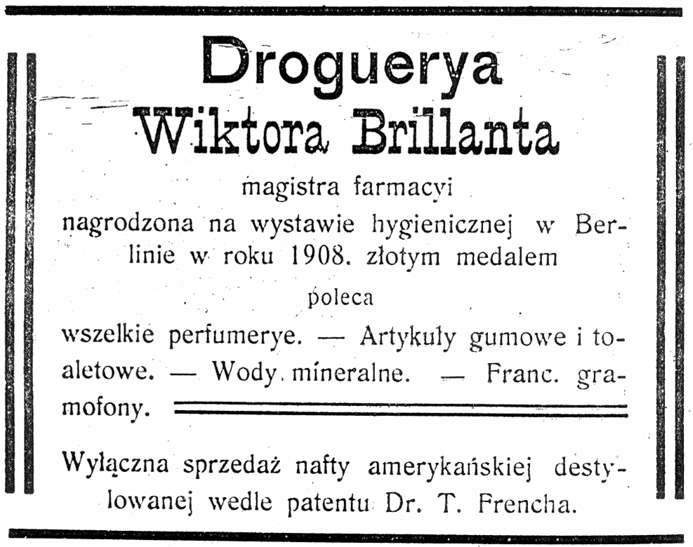 Commercial of Wictor Brillant. Translation:Commercial of Wictor Brillant. Translation: The Pharmacy of Wiktor Brillant, M.Sc Pharmaceutical. Won the first place in a show of hygiene products in Berlin and received a golden Medal in 1908. Sales French records, Mineral water , perfumery, rubber products, distillated American kerosene according to the patent of Dr. T. Frencha.